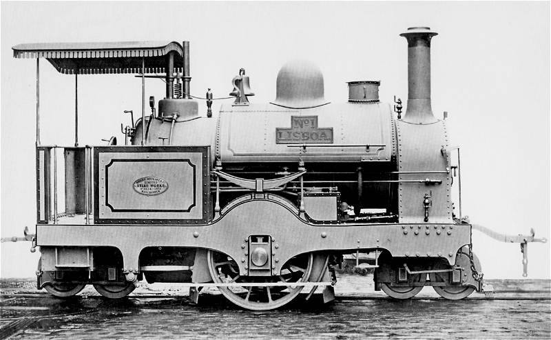 N° 1 'Lisboa' Larmanjat Monorail locomotive designed by F H Trevithick and built by Sharp, Stewart's in1872 for the Lisbon Tramways